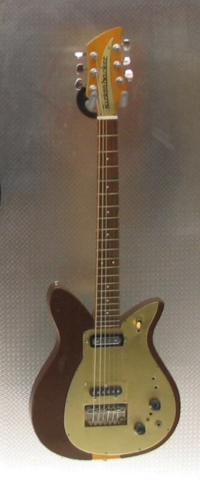 Rory Gallagher's collection 1957 Rickenbacker Combo 400 – [1] rear PU may be added later References Instrument Archive - Rory Gallagher | The Official Website. . Bjorn Eriksson, Rickenbacker Guitars